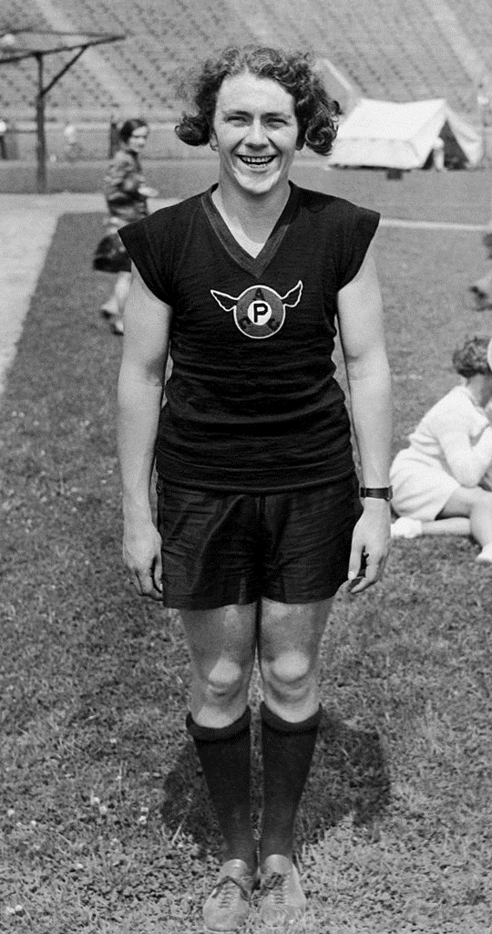 American Athlete Lillian Copeland In Newark On July 7, 1938.